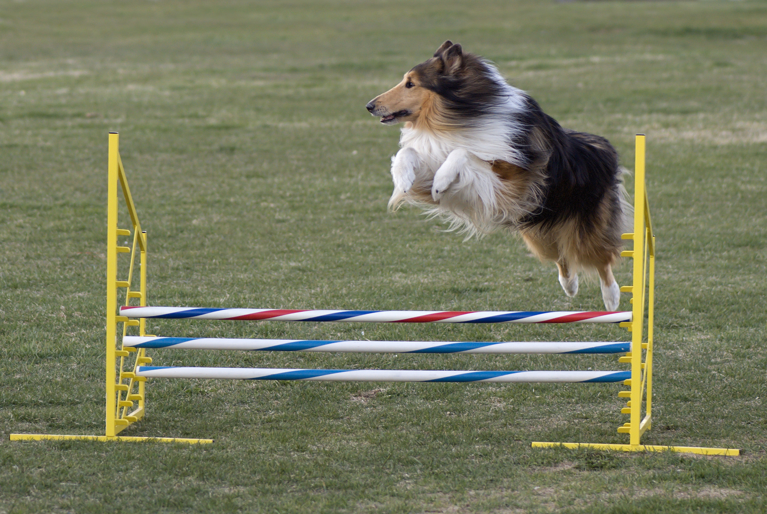 A dark sable Rough Collie during agility practice.